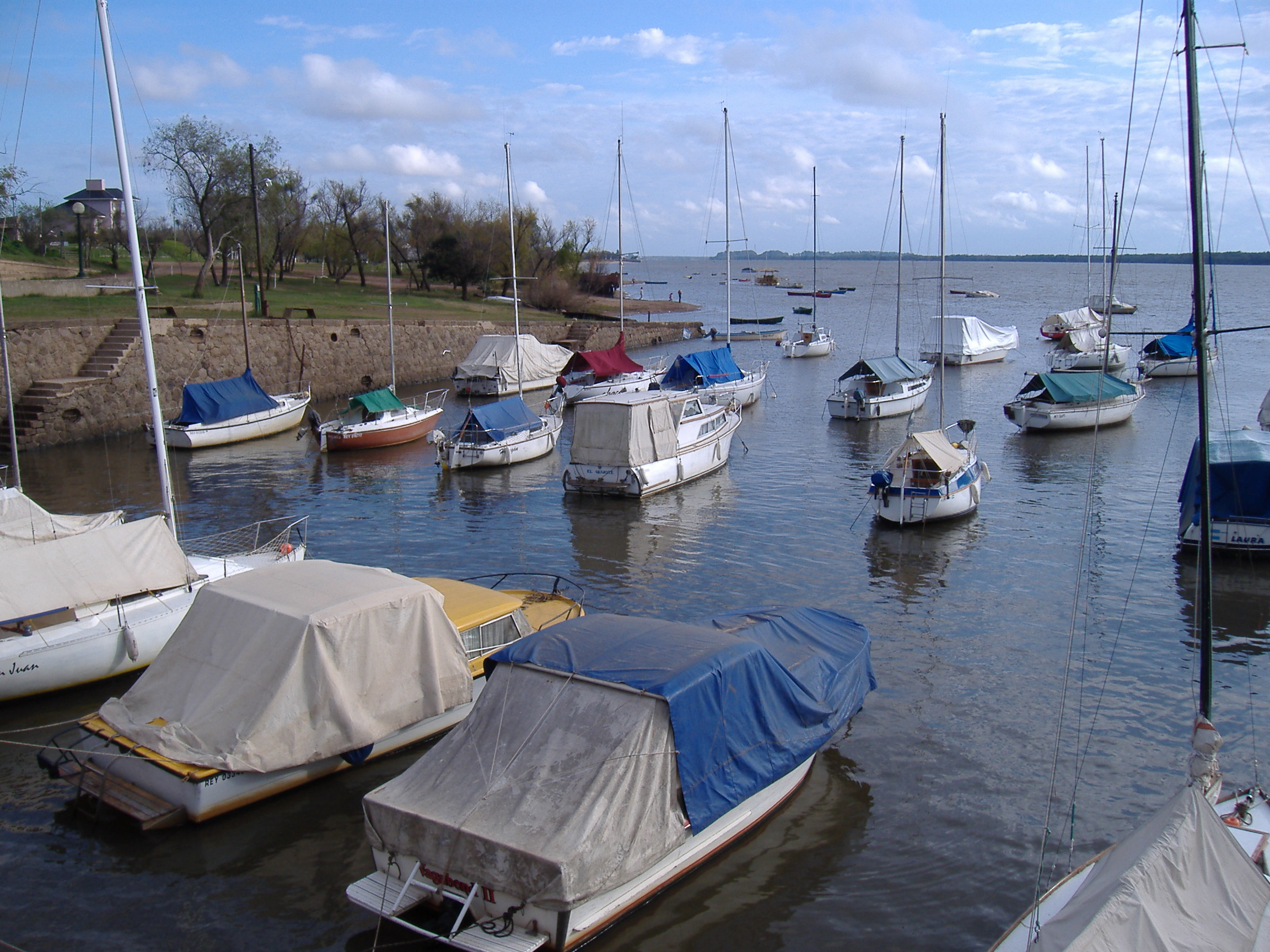 Sailboats in the port of Colón, Entre Ríos, Argentina.